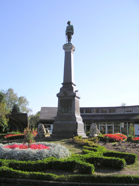 War Memorial, Queen's Park, Crewe. Queen's Park was laid out by engineer Francis Webb in the 1880s. The London and North Western Railway (successor to the GJR) bought the land and donated it to the town as a park in order to prevent the Great Western Railway from building a railway line through it.